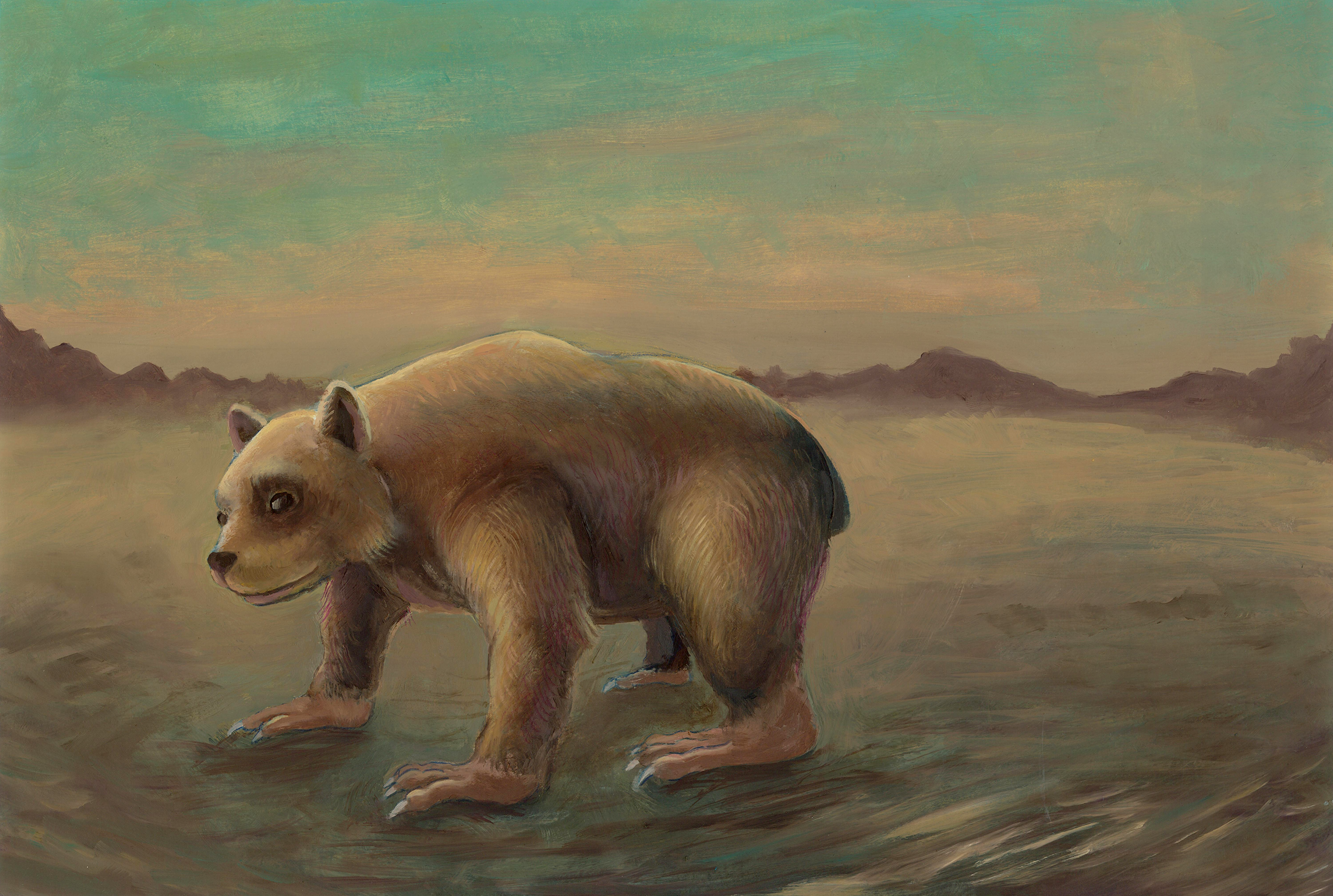 In the illustration we can see the recreation of a Chapalmalania that shows the main morphological features from the known information about this extinct mammal that lived in South America between 5.3 and 1.8 million years ago The illustration was made with the advise of Alistair Ian Spearing Ortiz, scientific translator and active participant of Mammals WikiProject in Catalan Wikipedia.